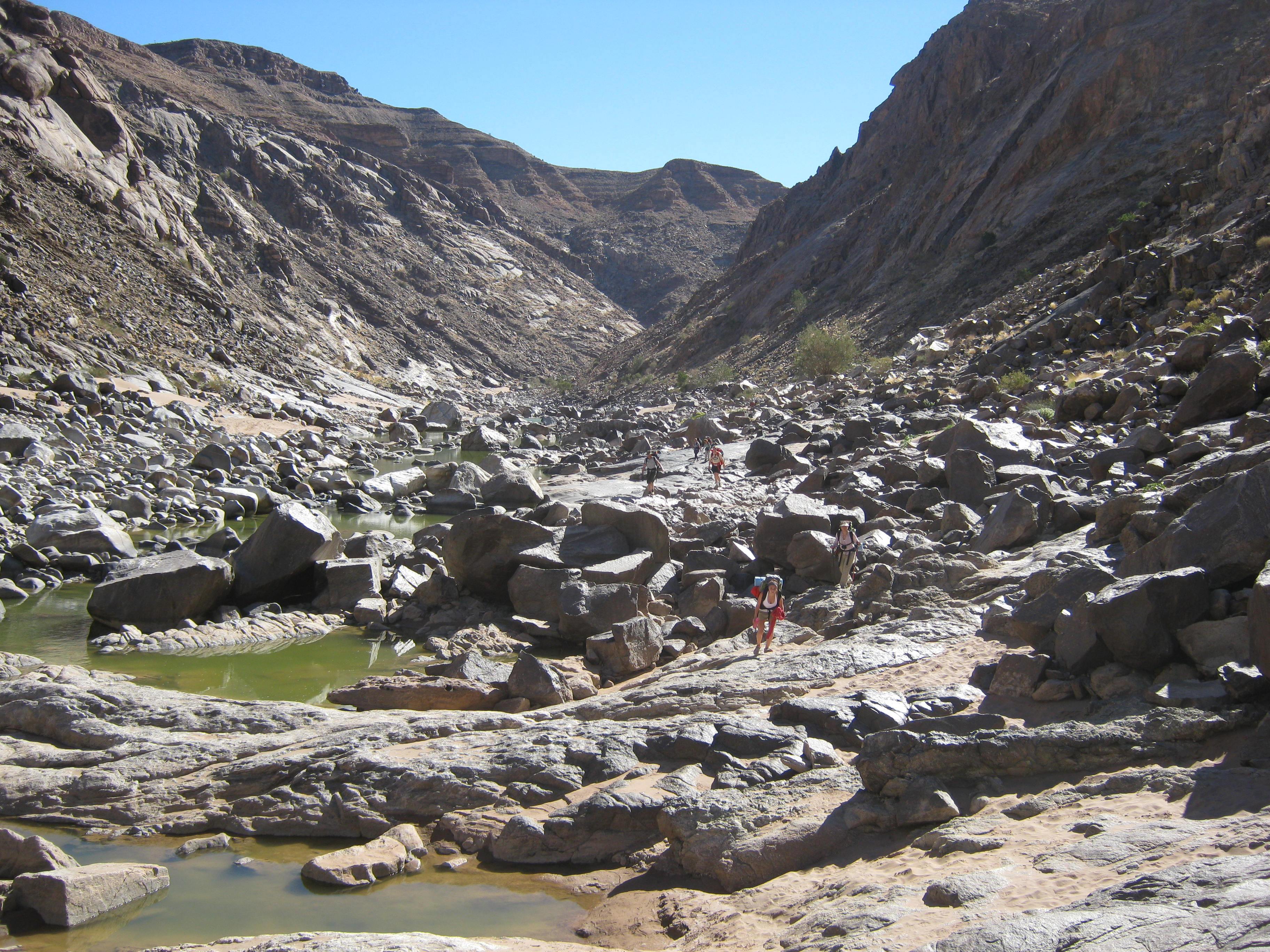 Difficult boulder section before Wild Fig Bend